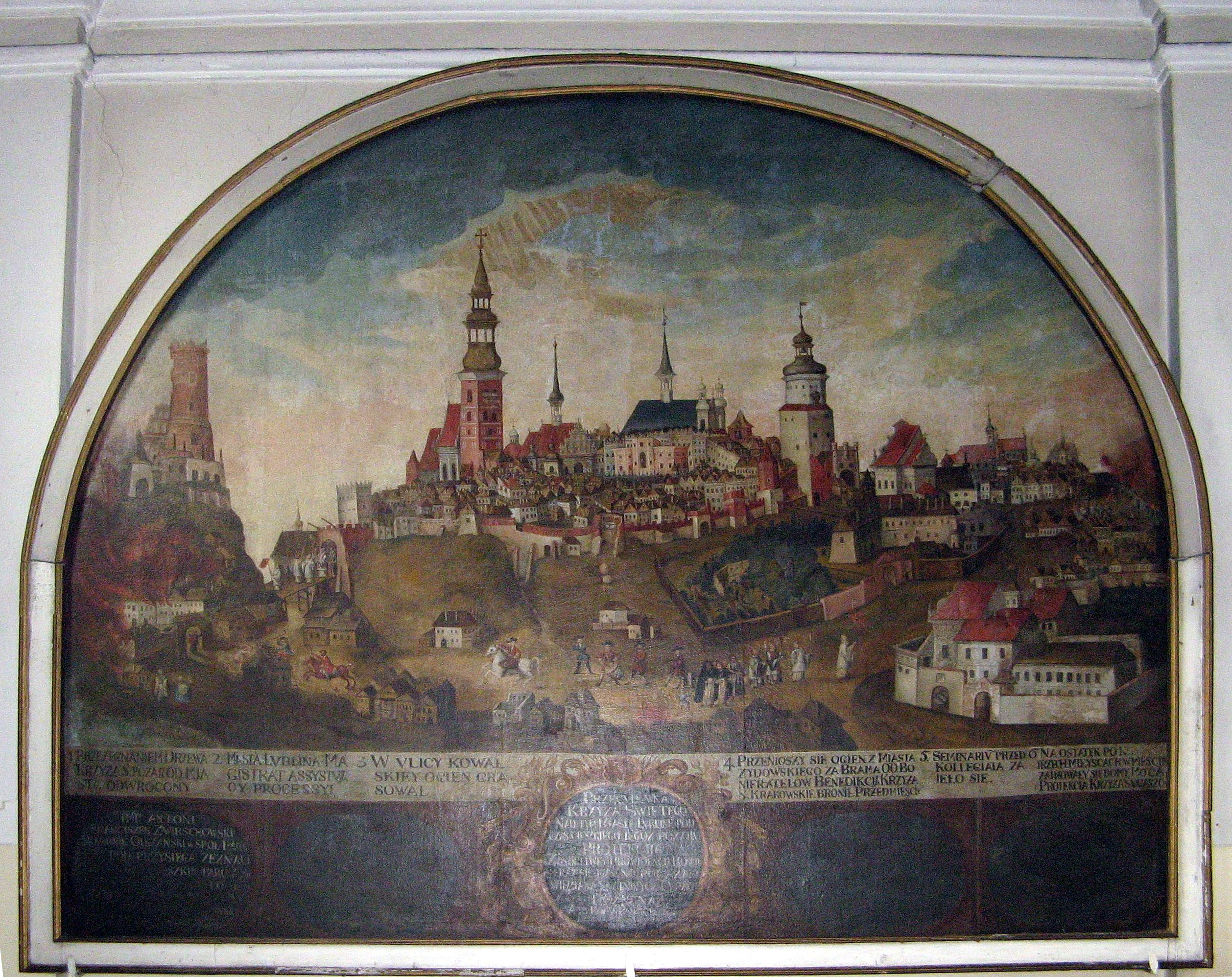 The Fire of Lublin (1719) - a painting in Lublin in the Dominican Church.